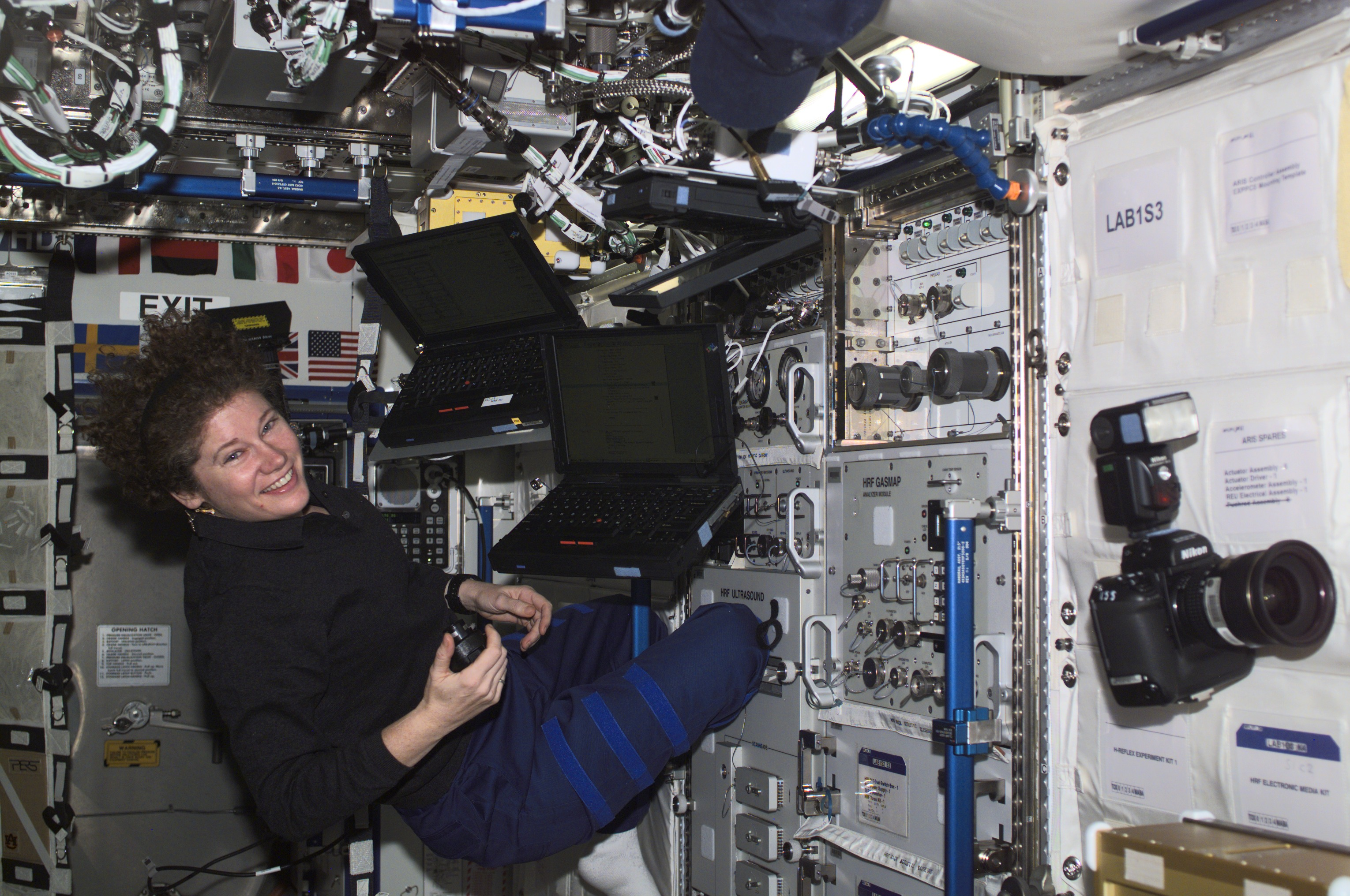 Susan J. Helms, Expedition Two flight engineer, works with three (IBM 7X0 series) laptop computers at the Human Research Facility (HRF) in the U.S. Laboratory. The image was taken with a digital still camera.